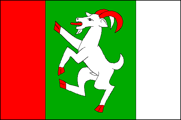 Municipal flag of Dolní Újezd village, Přerov District, Czech Republic.